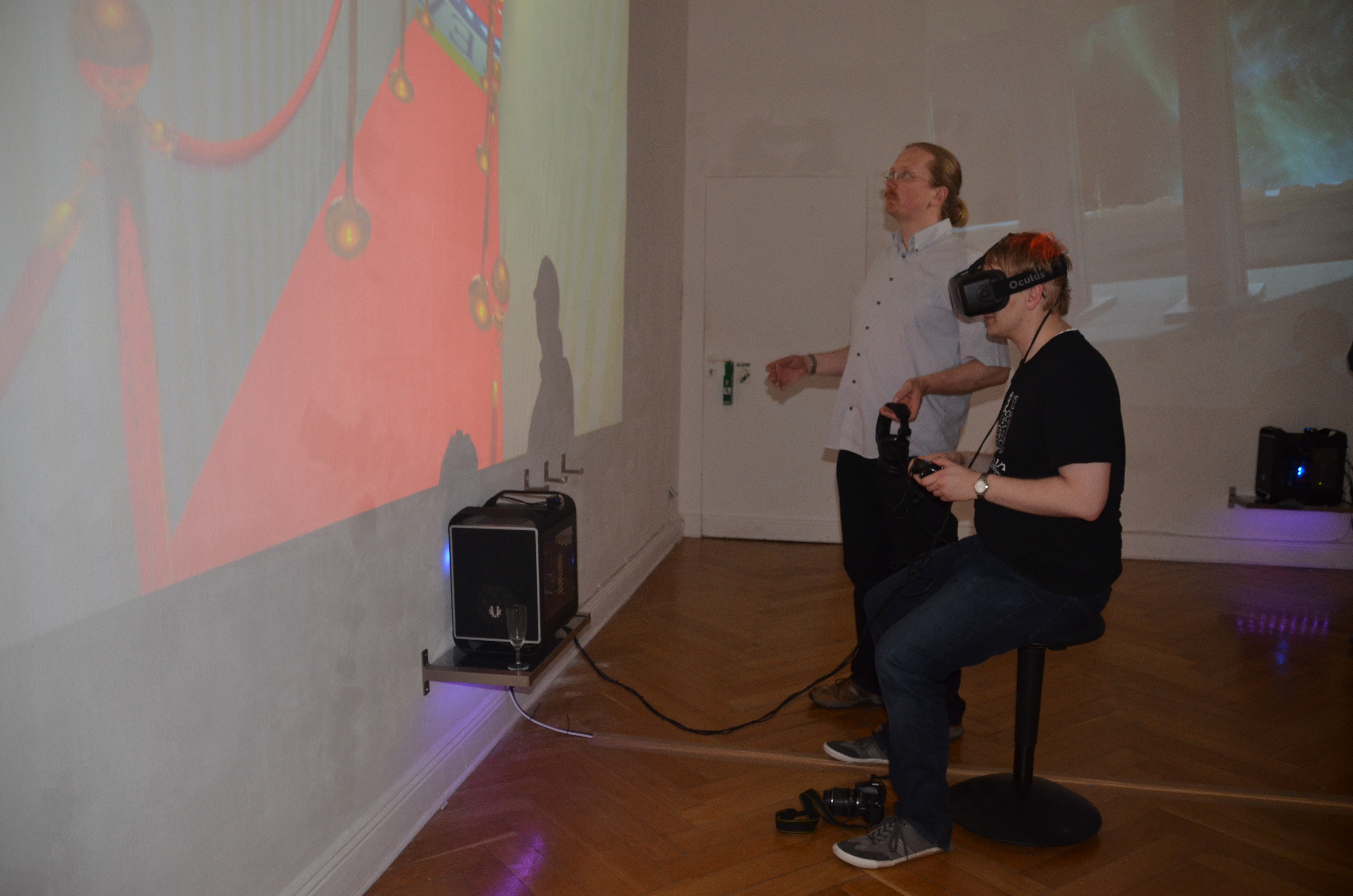 Martin experiences Virtual Reality (Together with "Print Wikipedia: From Aachen to Zylinderdruckpresse")